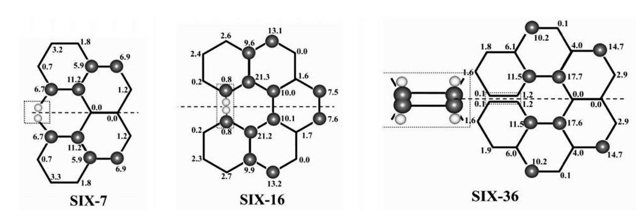 WaseemFig4